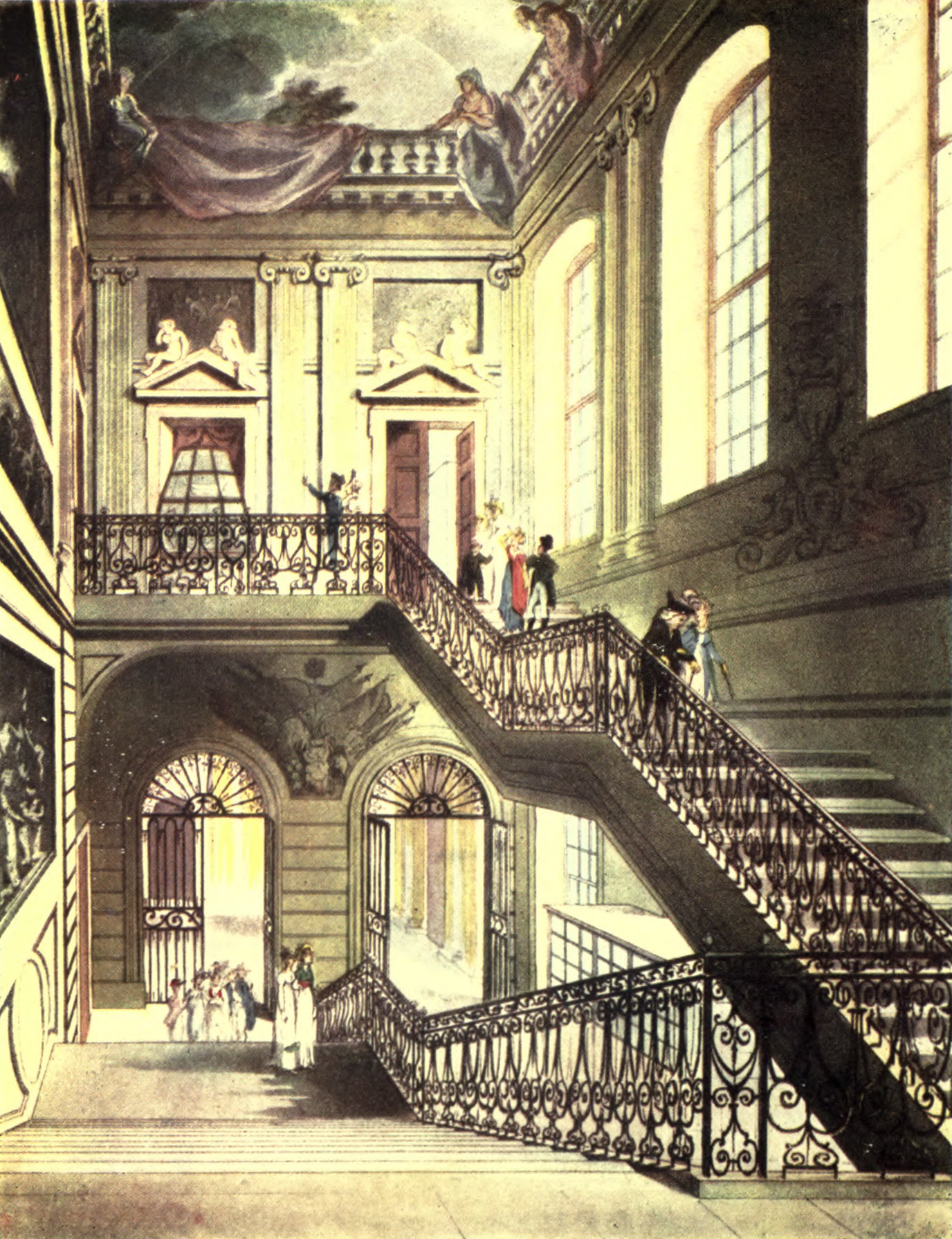 The Hall and Staircase, British Museum